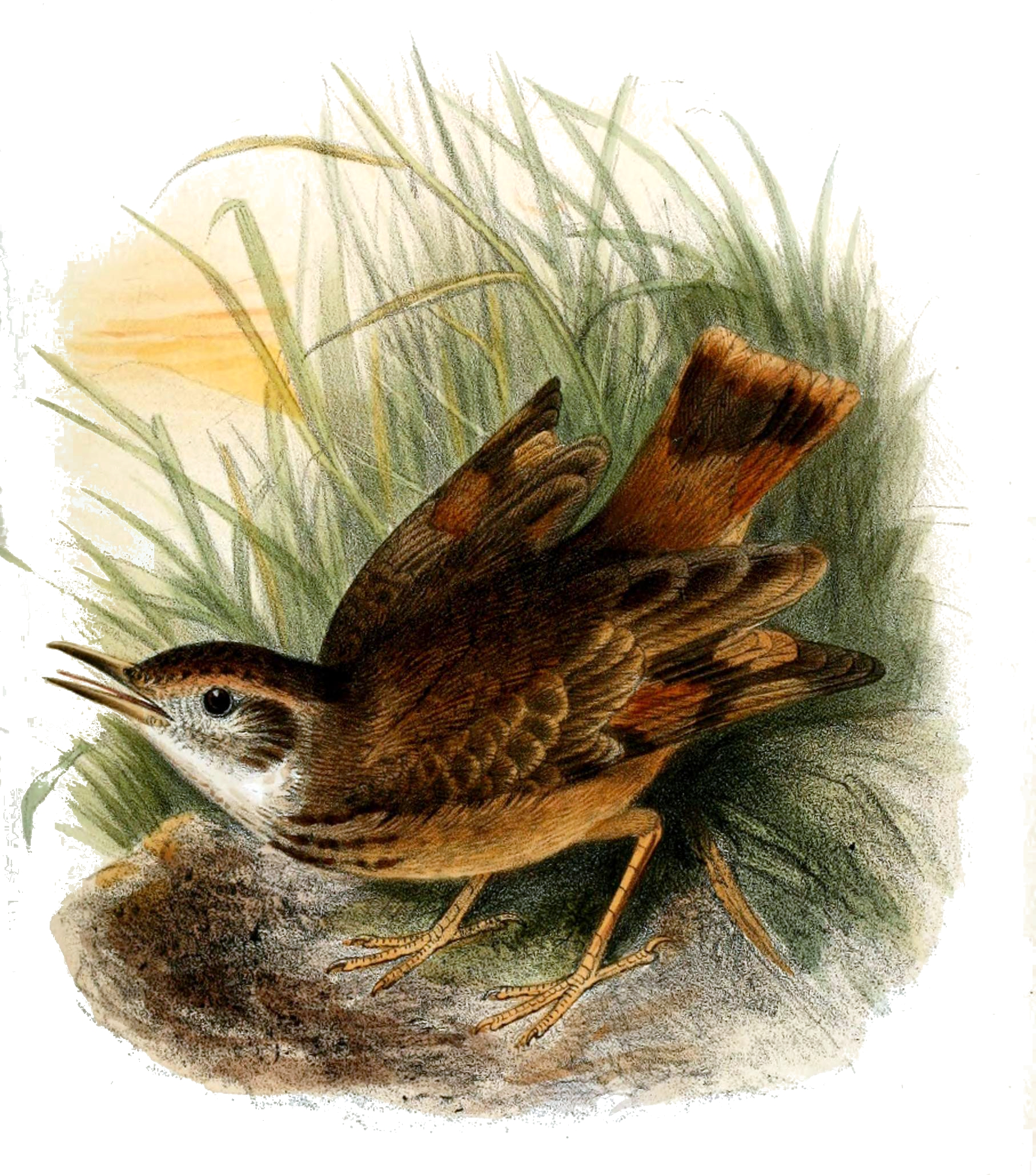 Campo Miner, adult